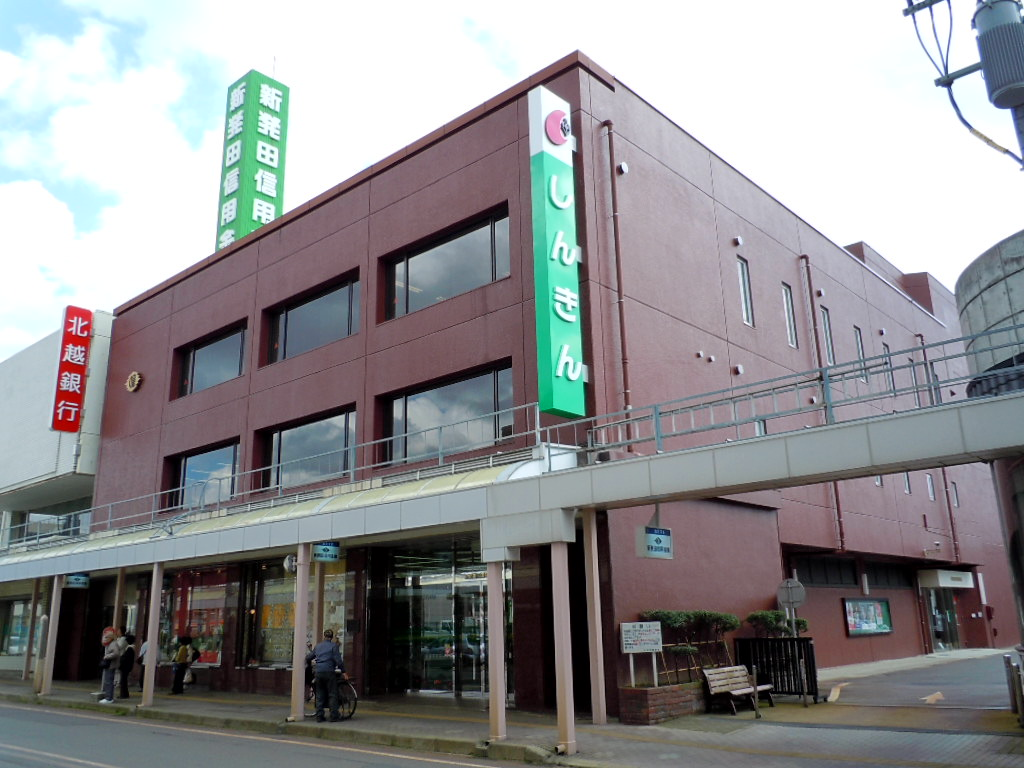 Shibata Shinkin Bank head store.